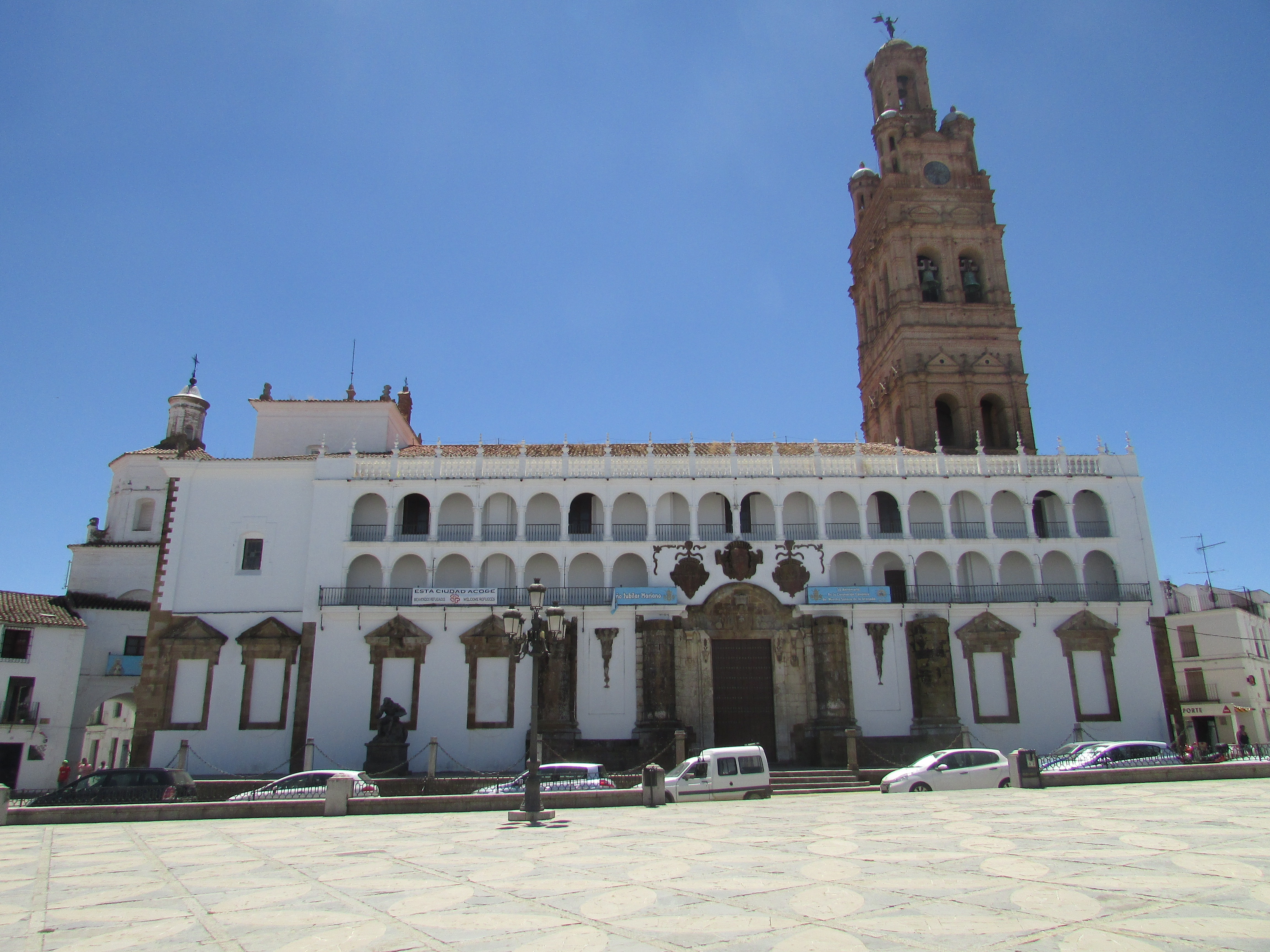 The north facing elevation of the Church of Our Lady of Granada (Iglesia de Nuestra Señora de la Granada) viewed from the Plaza de España in the town of Llerena, Extremadura, Spain